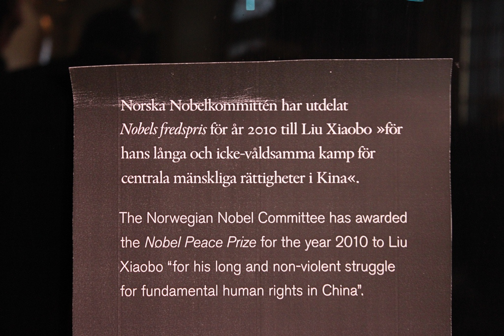 Freedom of Speech in China Among the many people campaigning for human rights in China, Liu Xiaobo, the 2010 Nobel Peace Prize Laureate, has become the most visible symbol of the struggle. A long-term exponent of non-violent protest, he is currently serving an 11-year prison term.